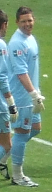 Ashley Bayes